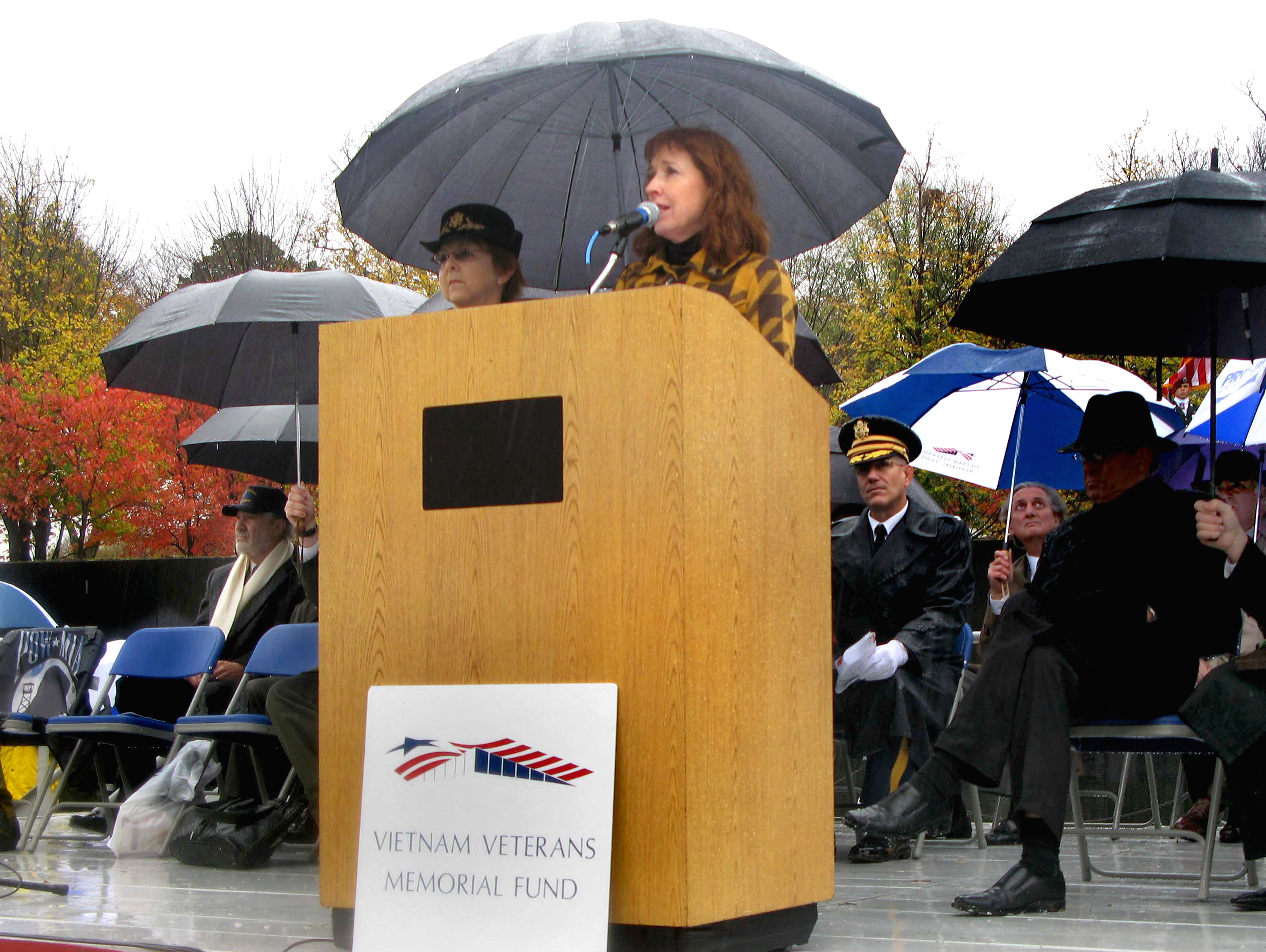 Diane Carlson Evans, founder and president of the Vietnam Women’s Memorial, addresses an audience at the Vietnam Veteran’s Memorial Wall in Washington, D.C., on Veterans Day, Nov. 11, 2009. The women’s memorial, erected 16 years ago, pays homage to the nurse corps comprising female servicemembers who deployed to Vietnam.